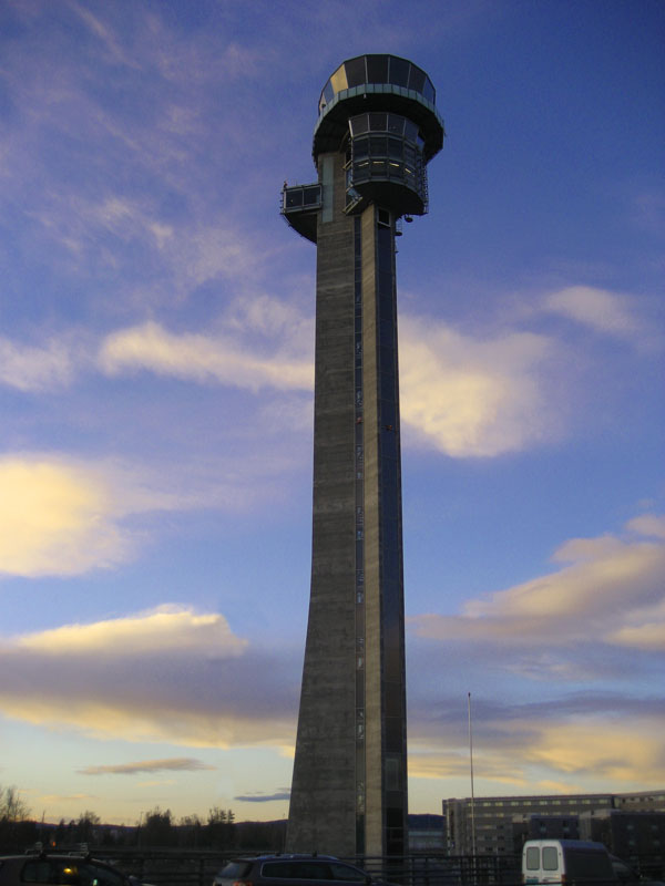 Oslo Airport, the control tower at dusk Photo: Snorre E Johnsen (2008)